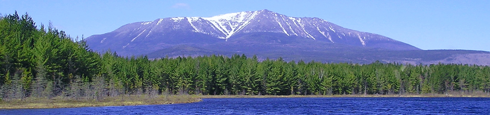 Katahdin, the highest peak in Maine, the centerpiece of Baxter State Park, and the Northern Terminus of the Appalachian Trail.